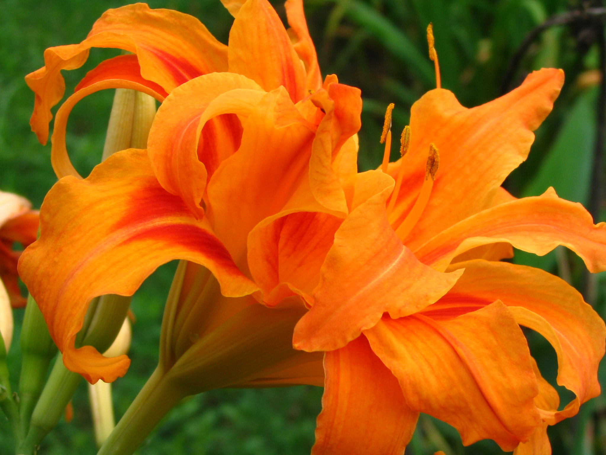 An Orange Daylily (Hemerocallis fulva) taken at Mimi Soileau's backyard. This is Hemerocallis "Kwanso" or "Kwanzo," the only known triploid day lily. It has triple the usual number of petals seen on diploid or tetraploid daylilies.